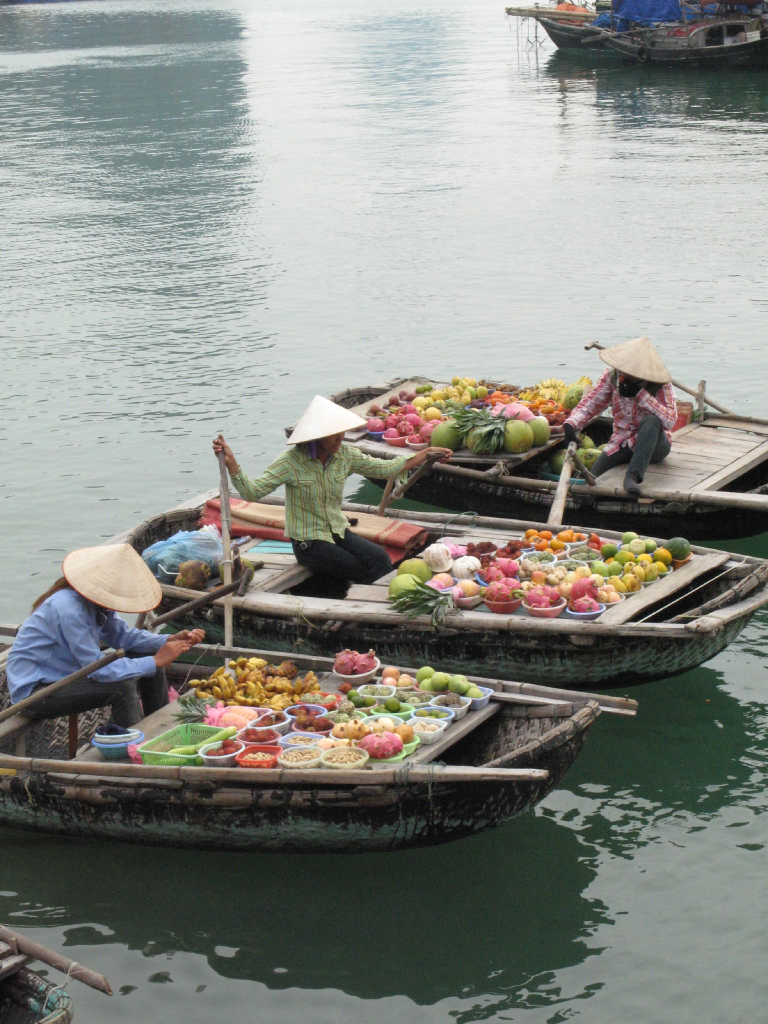 Vendors on boats in Ha Long bay.